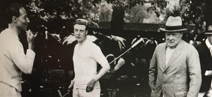 Philip Sassoon with Edward VIII and Churchill